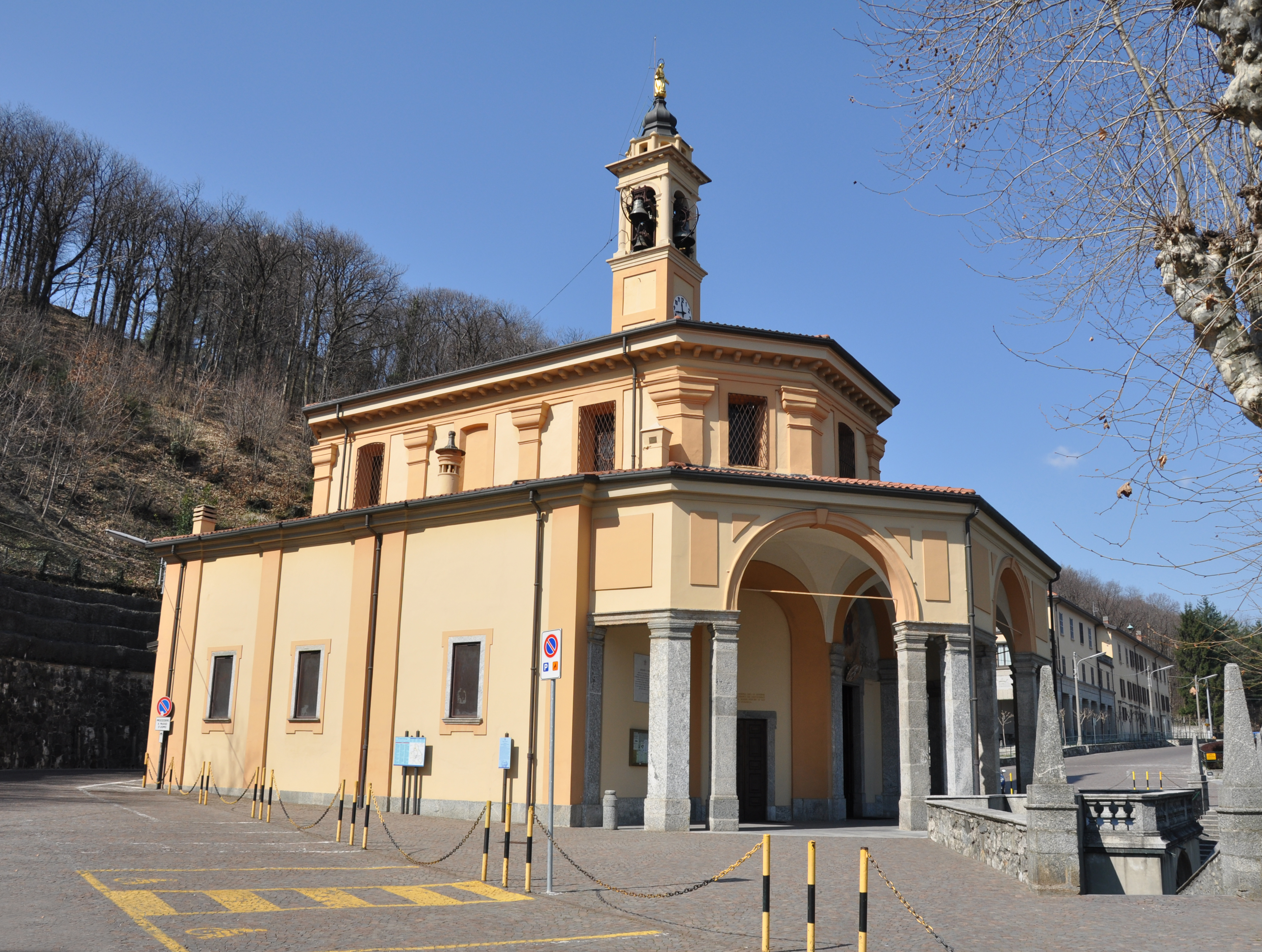 Sanctuary Madonna del bosco in Imbersago (LC) Italy